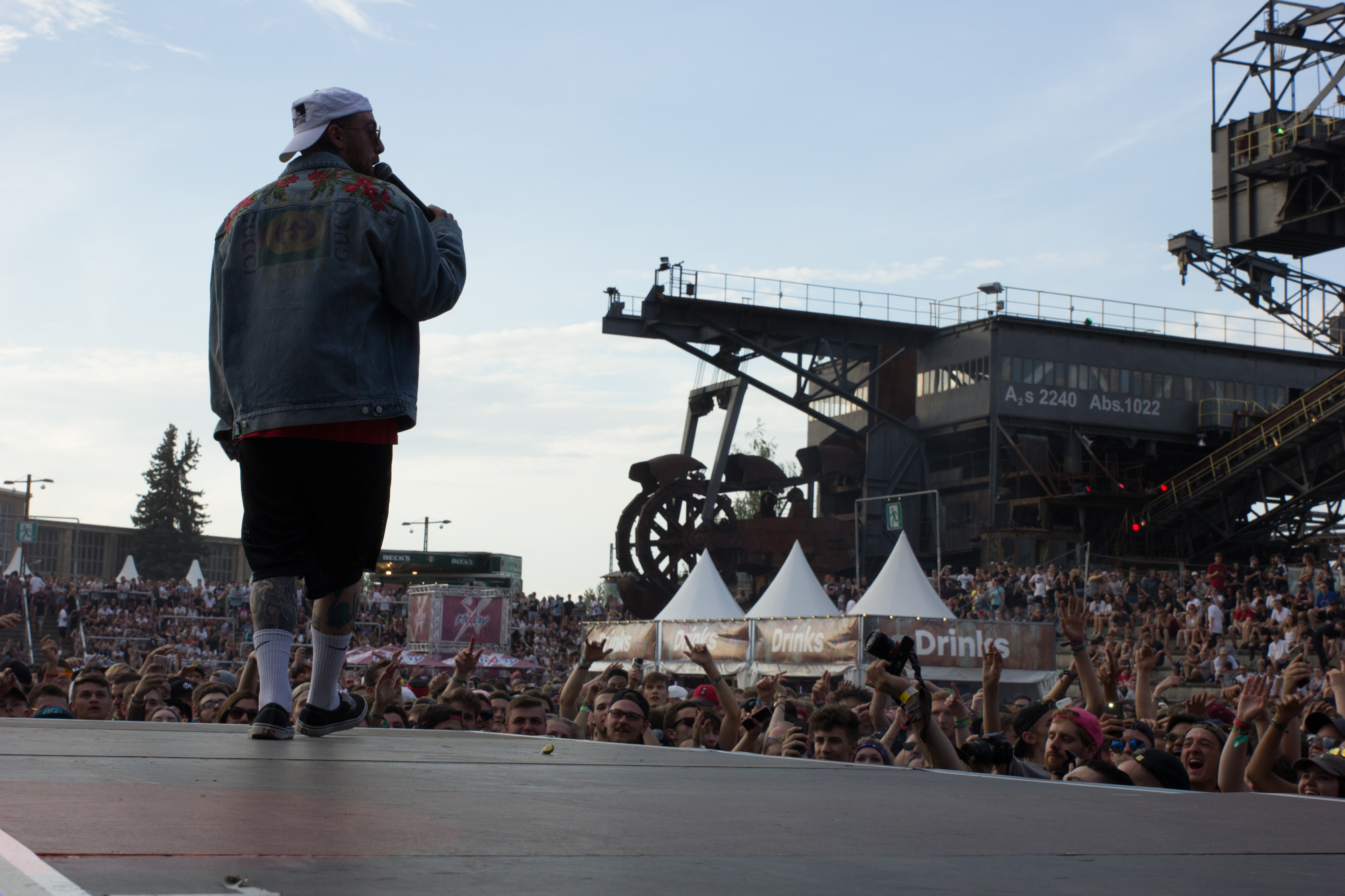 Mac Miller on the Stage at Splash!20